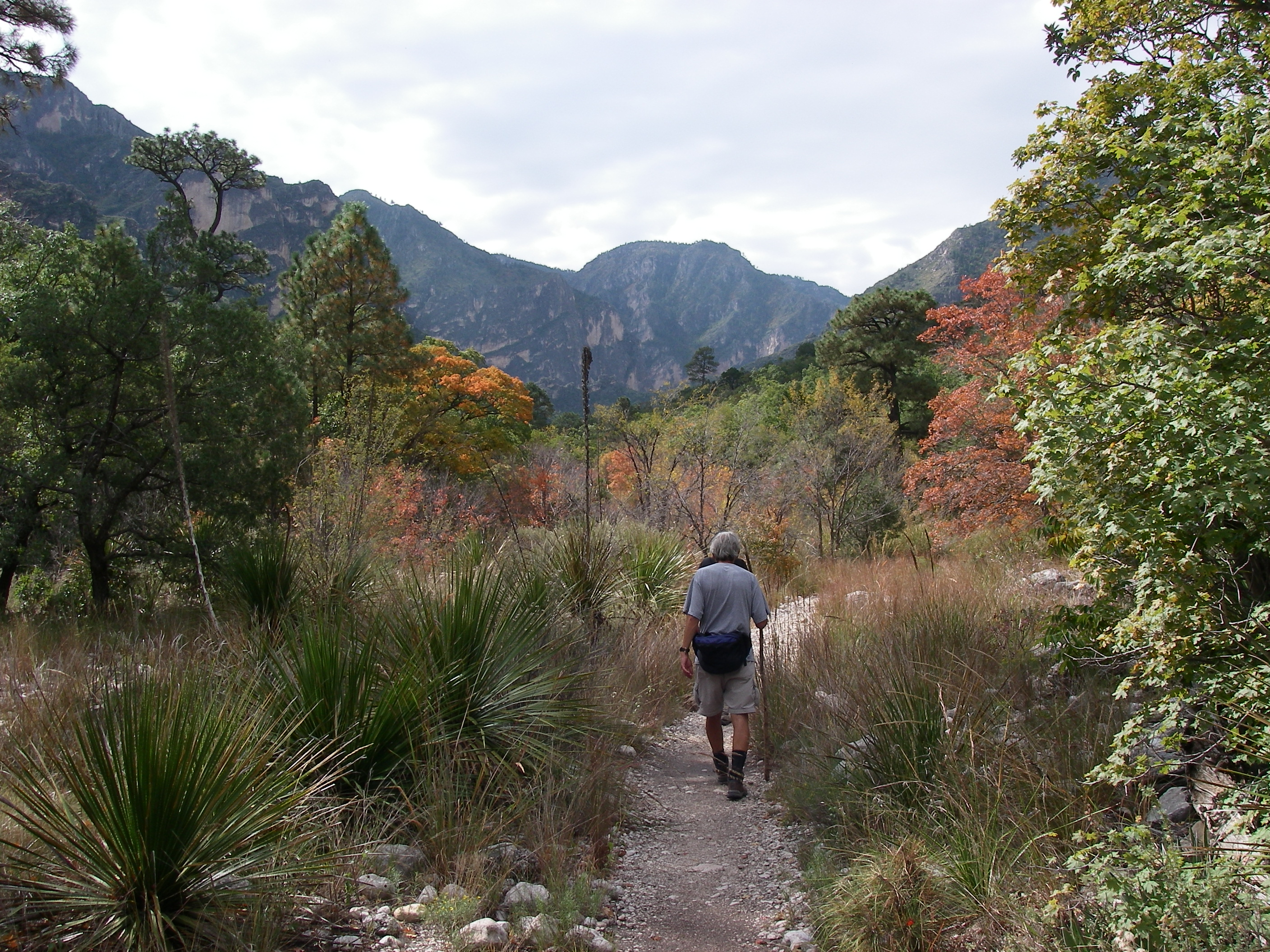 Fall colors along the McKittrick Canyon Trail, in Guadalupe Mountains National Park, West Texas.